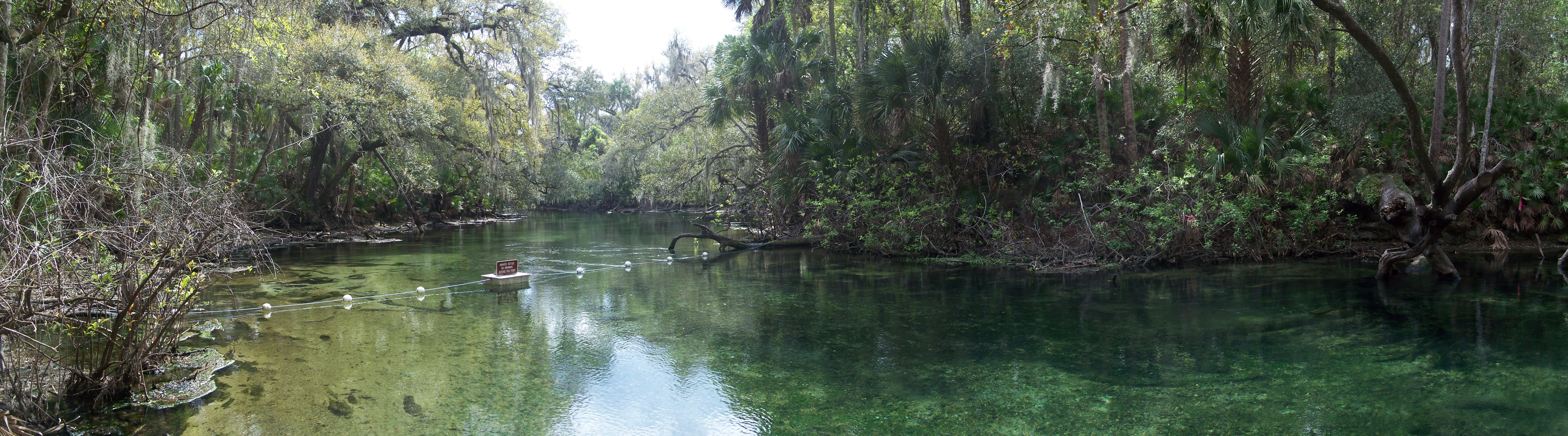 Panorama view of Blue Spring Run, in Blue Spring State Park near Orange City, Florida